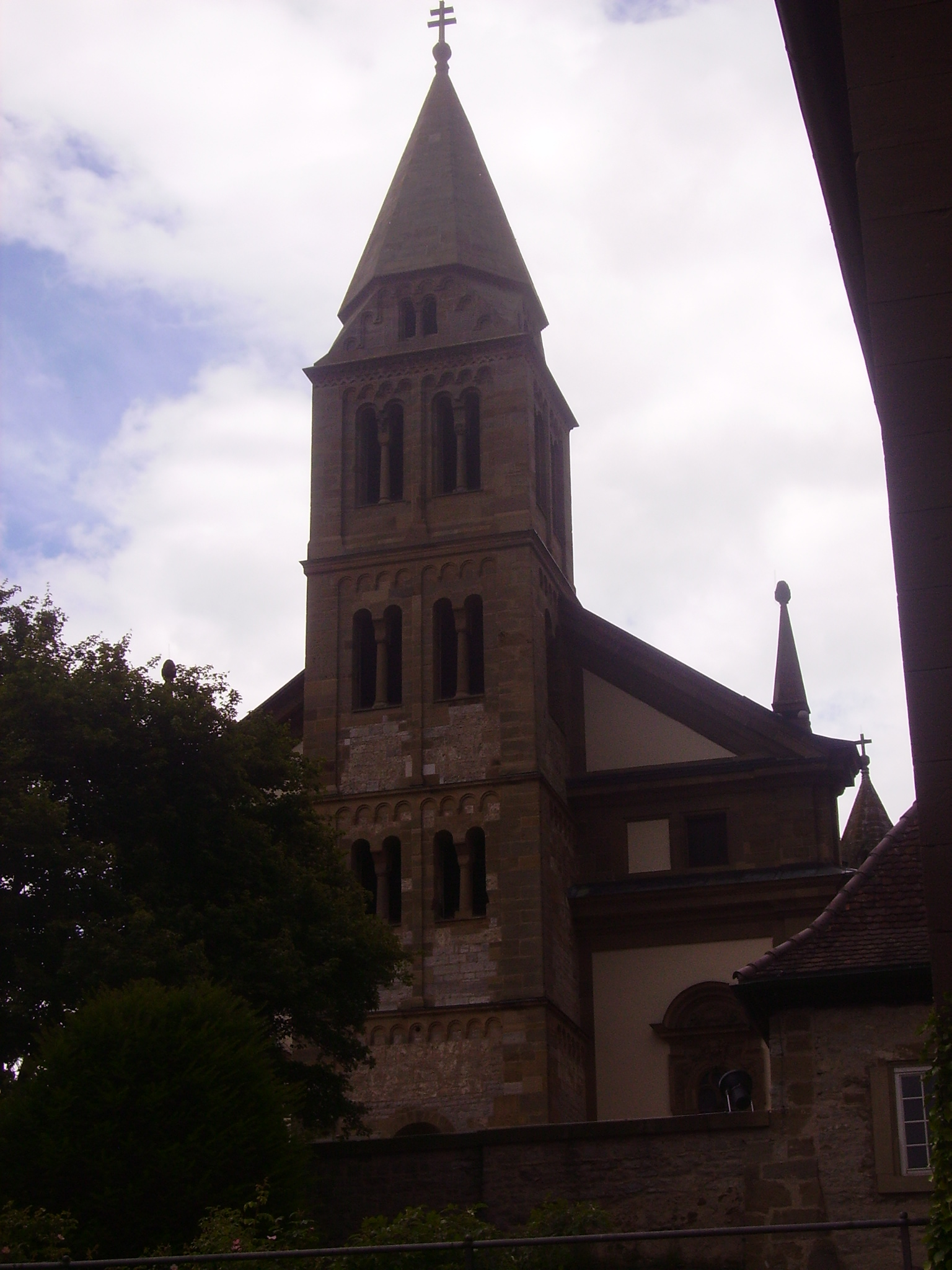 Facade of Großcomburg Monastery Church St. Nicholas, Schwäbisch Hall